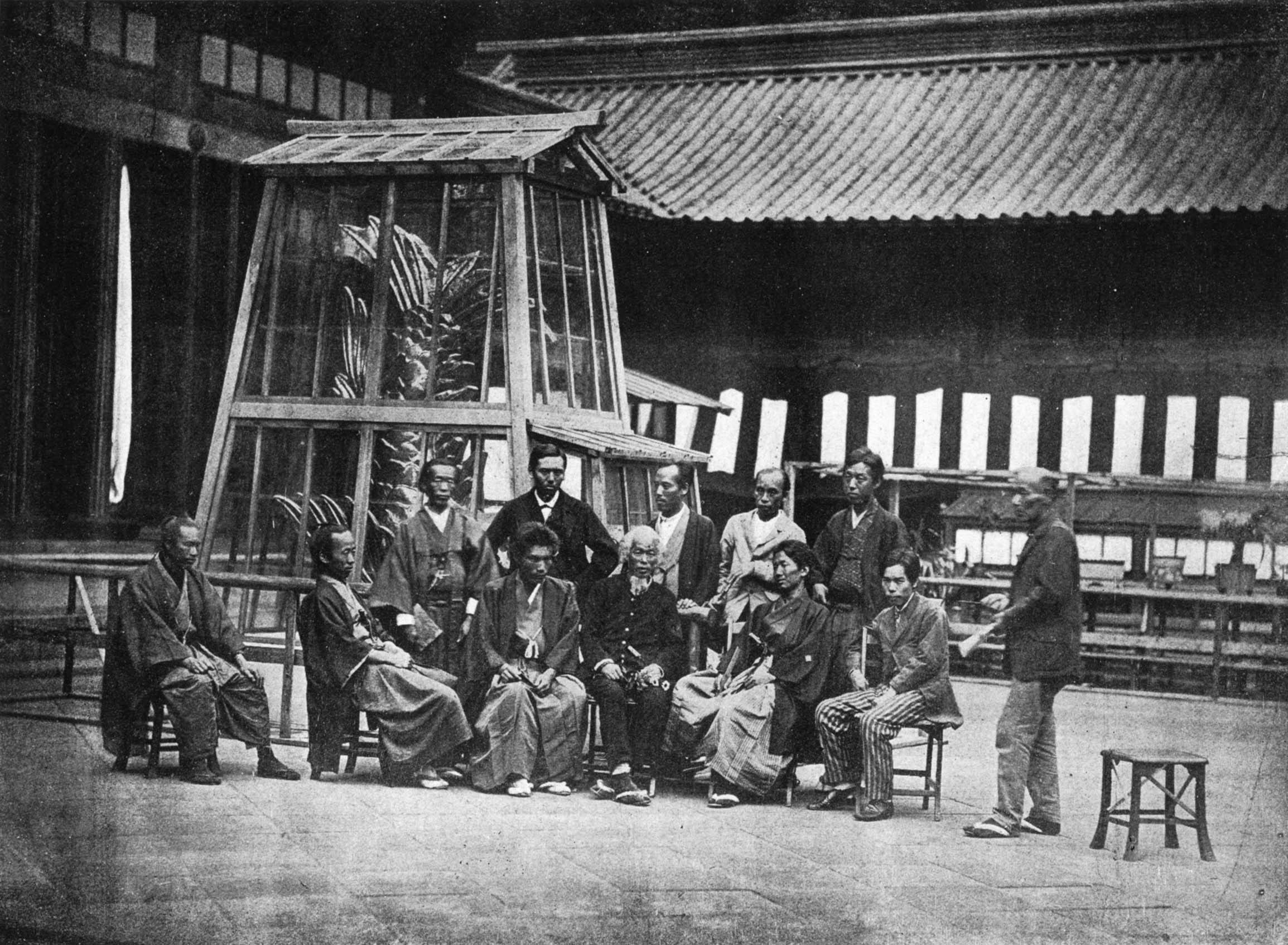 Staff of the Yushima Seido Exposition in Meiji 5 (taken by Yokoyama Matsusaburō). Front row (from left): Tanaka, Ninagawa Noritane, Machida Hisanari, Itō Keisuke, Uchida Masao, Tanaka Yoshio, Hattori Sessai. Middle row (from right): Ono Motoyoshi, Tanimori Masao, Kubo Hiromichi, Hirose, Oda Nobunori. Back row: Golden Shachi.